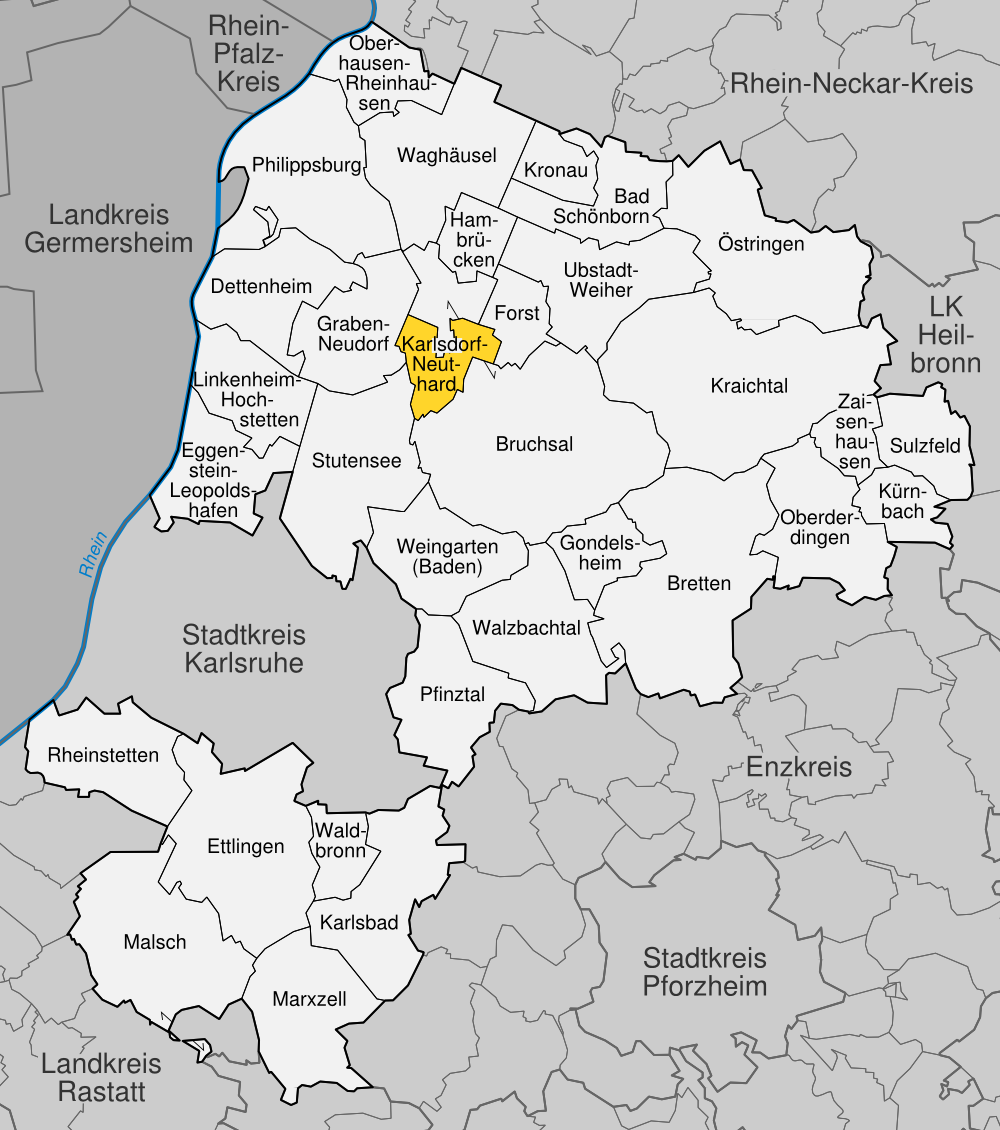 position of Karlsdorf-Neuthard within distict of Karlsruhe, Baden-Württemberg, Germany